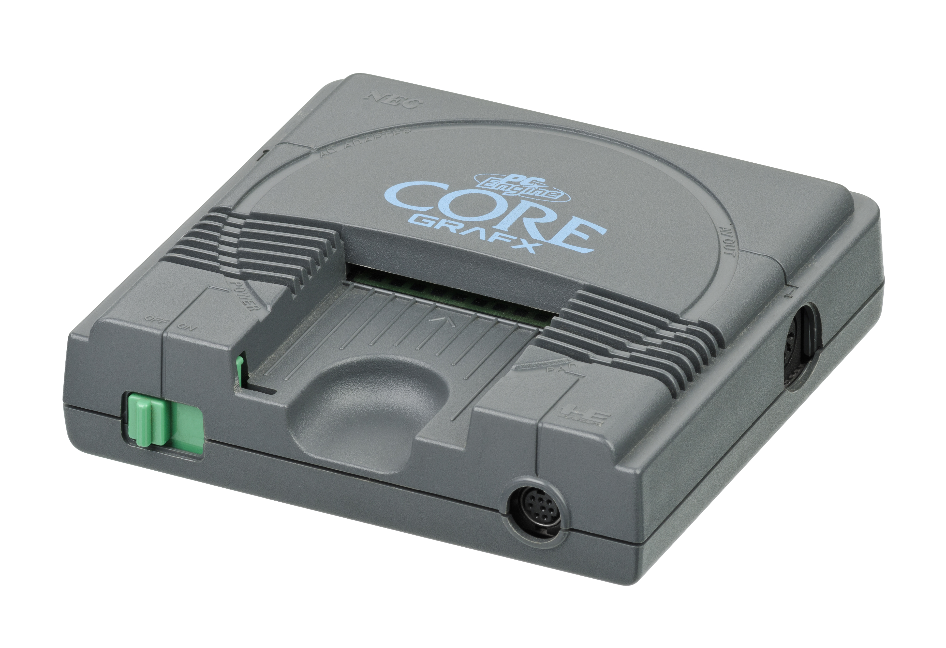 The NEC PC Engine Core Grafx, a fourth-generation video game console. A hardware revision of the 1987 PC Engine, the Core Grafx added a multi-AV port, replacing the RF-only output of the previous model.